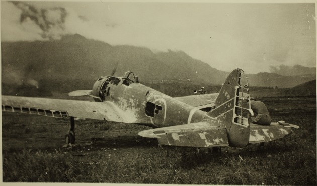 PictionID:6485518 - Catalog:01_00086165 - Title:Nakajima, Ki-43, Hayabusa 'Peregrine Falcon' Oscar 'Jim' Army Type 1 Fighter - Filename:01_00086165.TIF - Image from the Charles Daniels Photo Collection album "Seversky, Republic and P-47"----PLEASE TAG this image with any information you know about it, so that we can permanently store this data with the original image file in our Digital Asset Management System.----SOURCE INSTITUTION: San Diego Air and Space Museum Archive